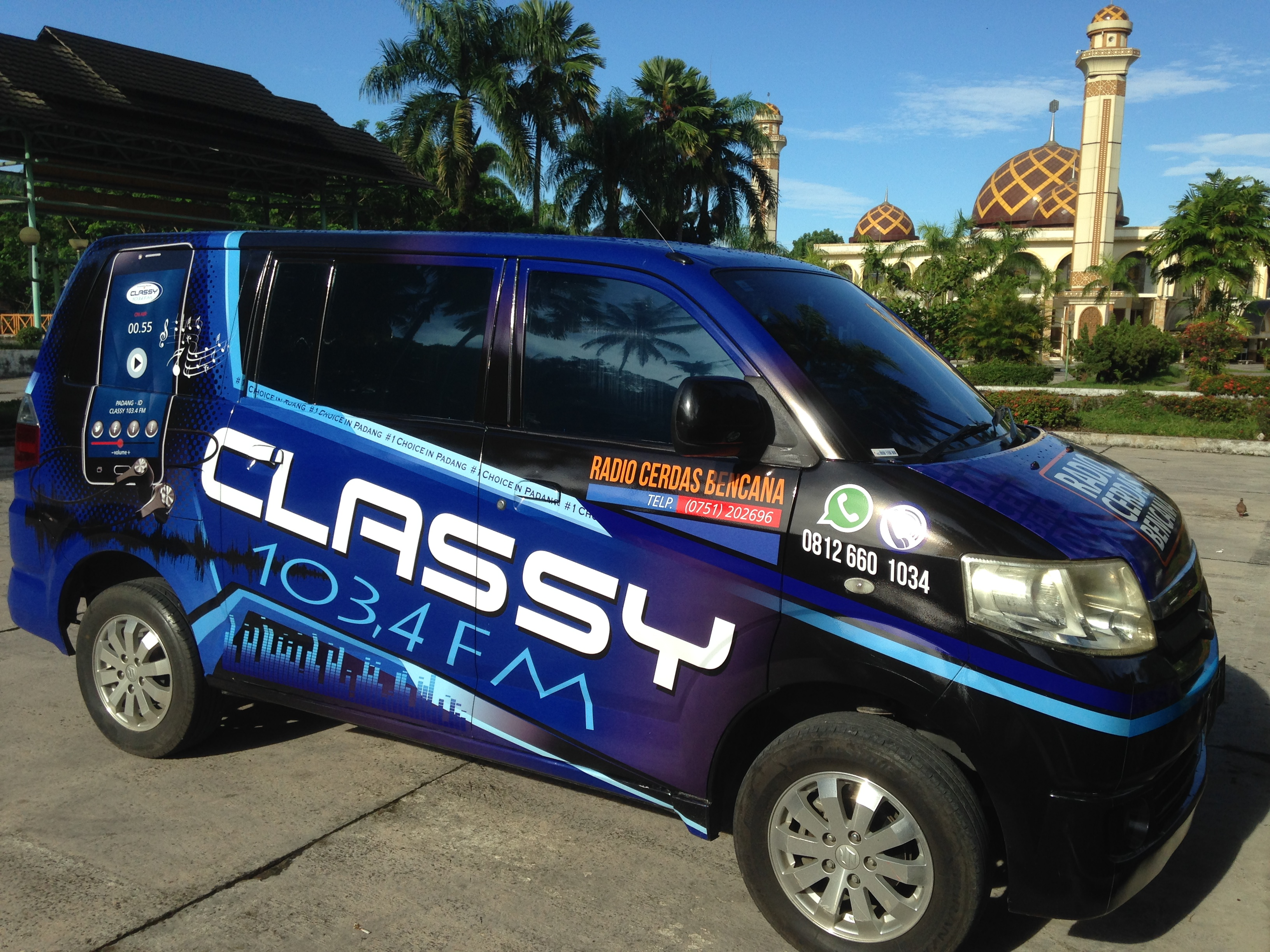 Outside Broadcasting van Classy FM Padang